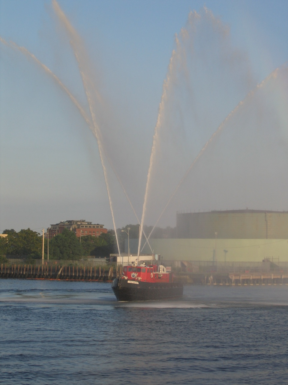 The Boston fireboat Firefighter, now retired, demonstrates its fire monitors in the Reserved Channel.